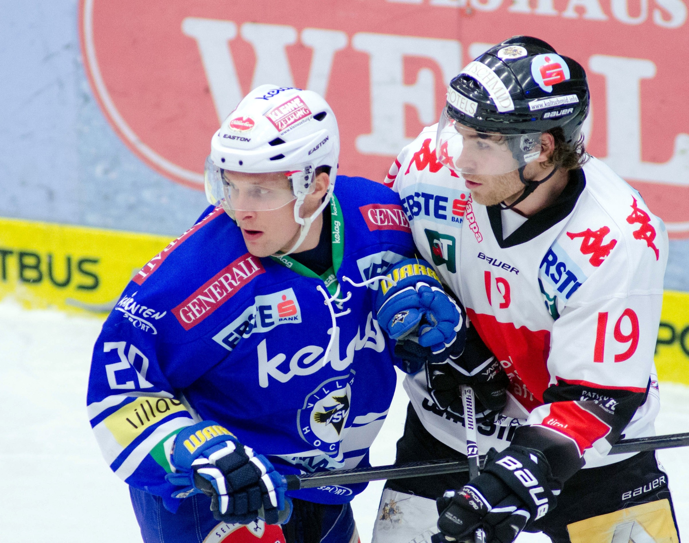 22.11.2013,Stadthalle Villach, AUT, EBEL, 38. Runde, EC VSV vs. HC TWK Innsbruck, im Bild Tyler Donati, (HCI #19),// frostworx Pictures © 2013, PhotoCredit: frostworx / Alex Micheu